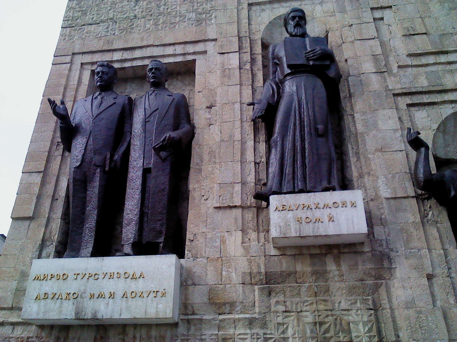 Tajik Writers Union building, Dushanbe